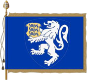 Estonian Police and Border Guard Board flag